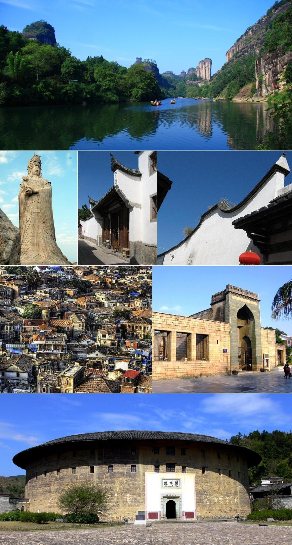 Images of Fujian, from top, left to right: Wuyi Mountains in Northwest Fujian, the Taoist Statue of Mazu in Meizhou Island, a gate (left) and gable (right) of traditional Foochow architecture in the Three Lanes and Seven Alleys in Fuzhou, Gulangyu Island in Xiamen (Amoy), the ancient mosque of Quanzhou (Zayton), Zhencheng Lou of Fujian Tulou dwellings in Southwest Fujian